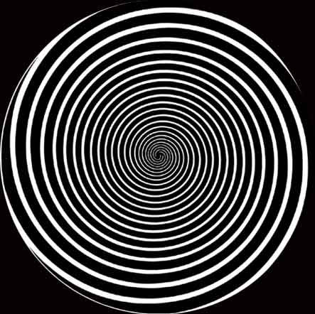 Hypnotic spiral for hypnotherapy. Easy instant induction technique.